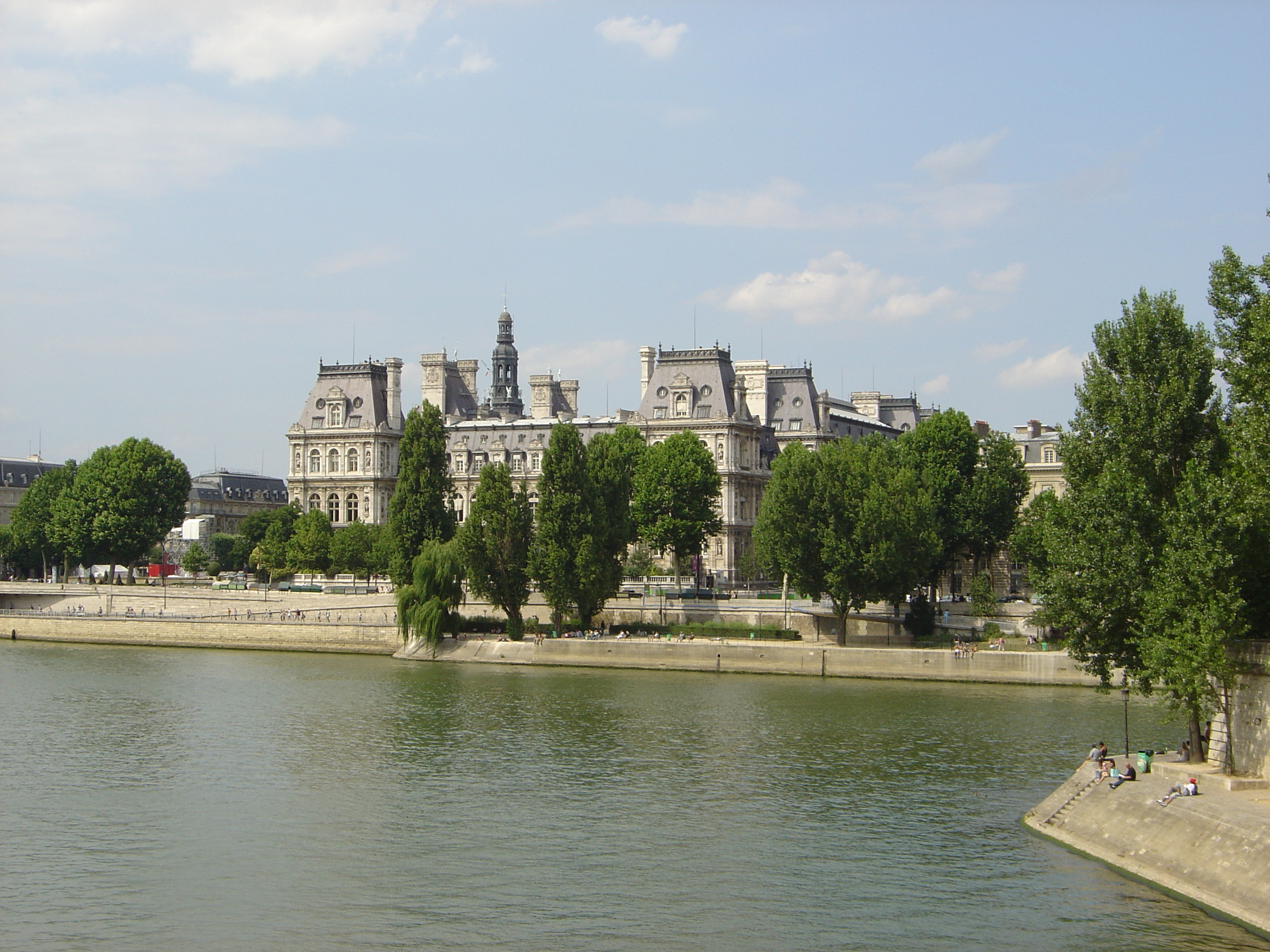 Paris City Hall, seen from Île Saint-Louis